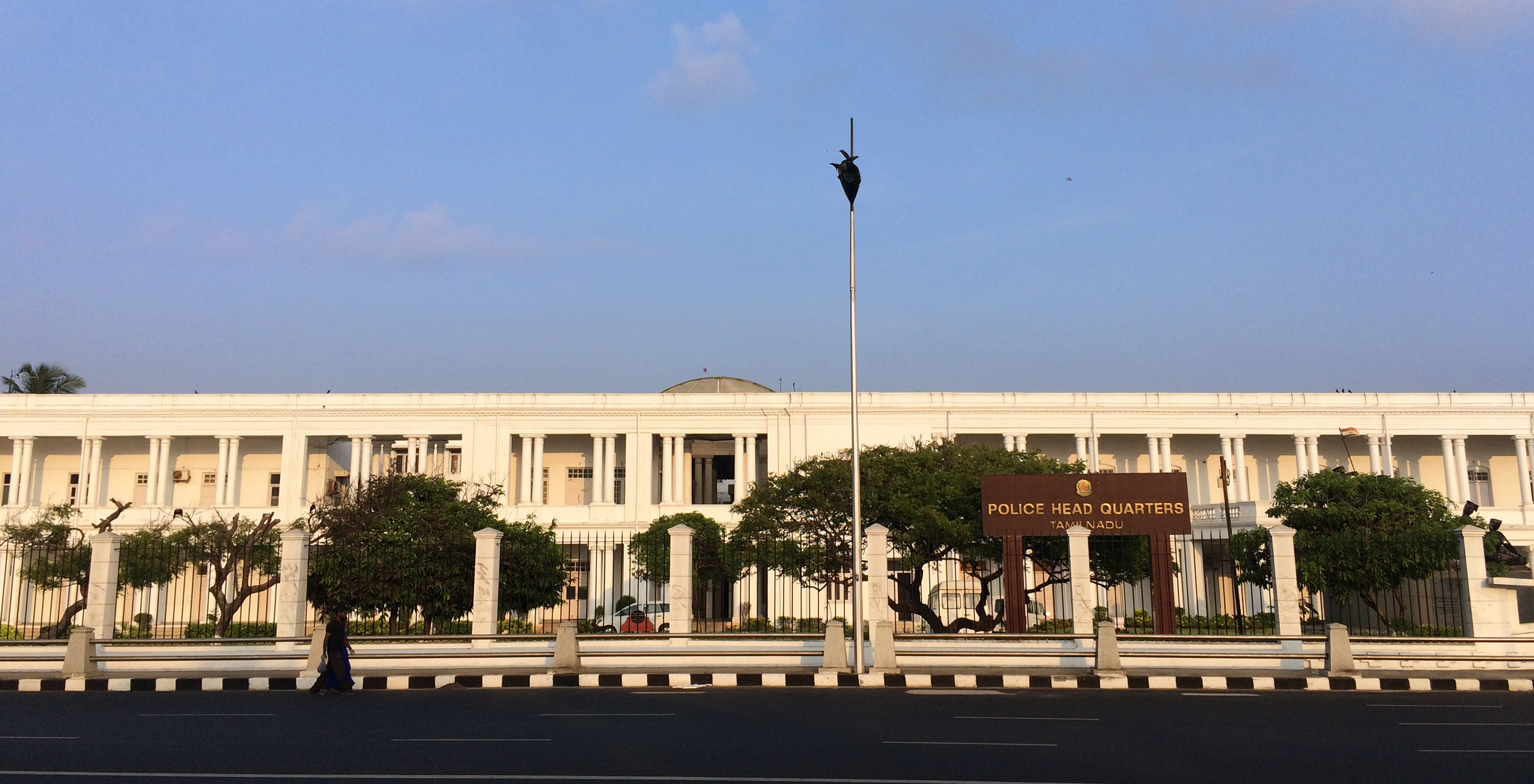 Tamil Nadu Police head Quarters in Beach Road, Chennai